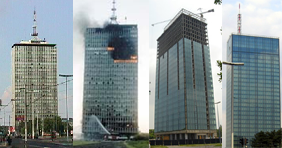 Reconstruction of Ušće Tour in Belgrade.